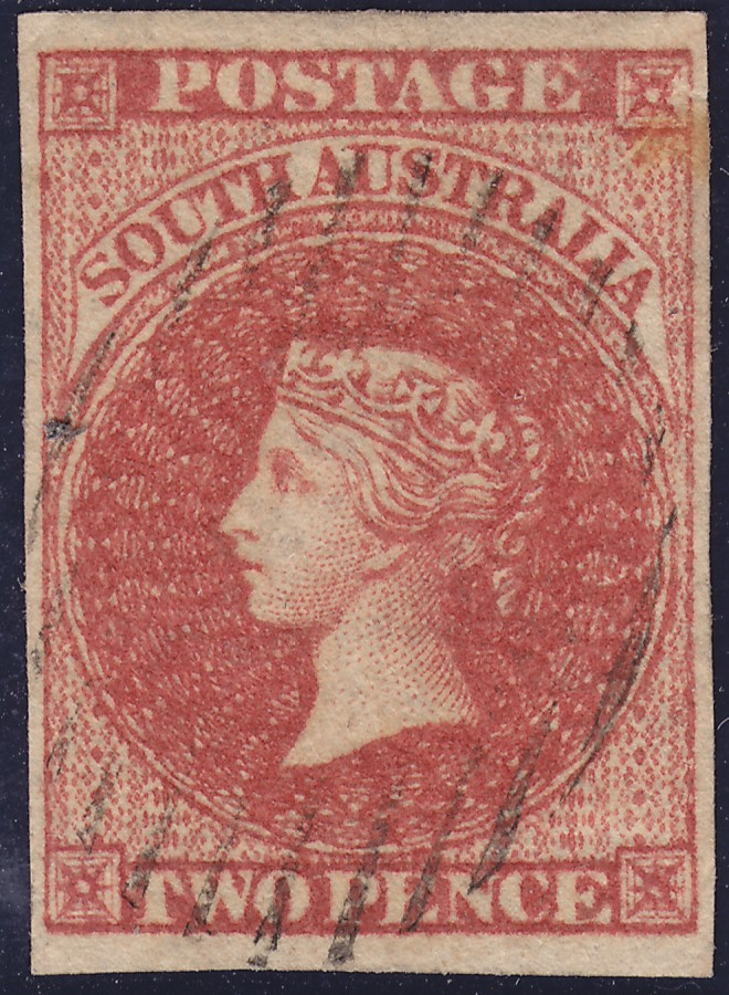 First issued stamp of South Australia in 1 January 1855